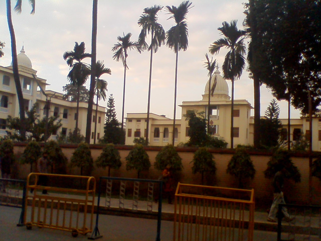 Vivekananda University on Belur Math campus.